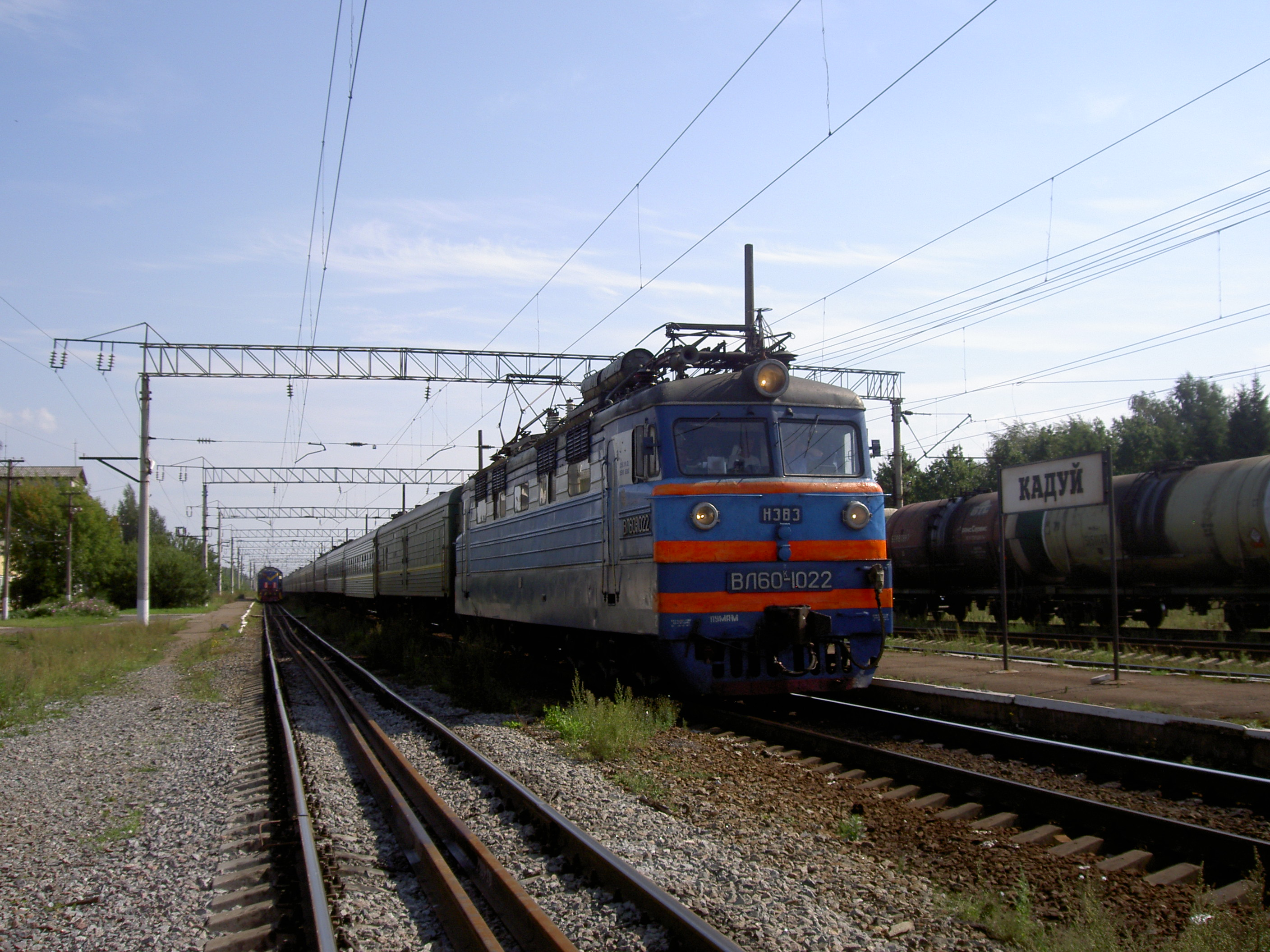 Kaduy station. Passenger train from Koshta station is coming